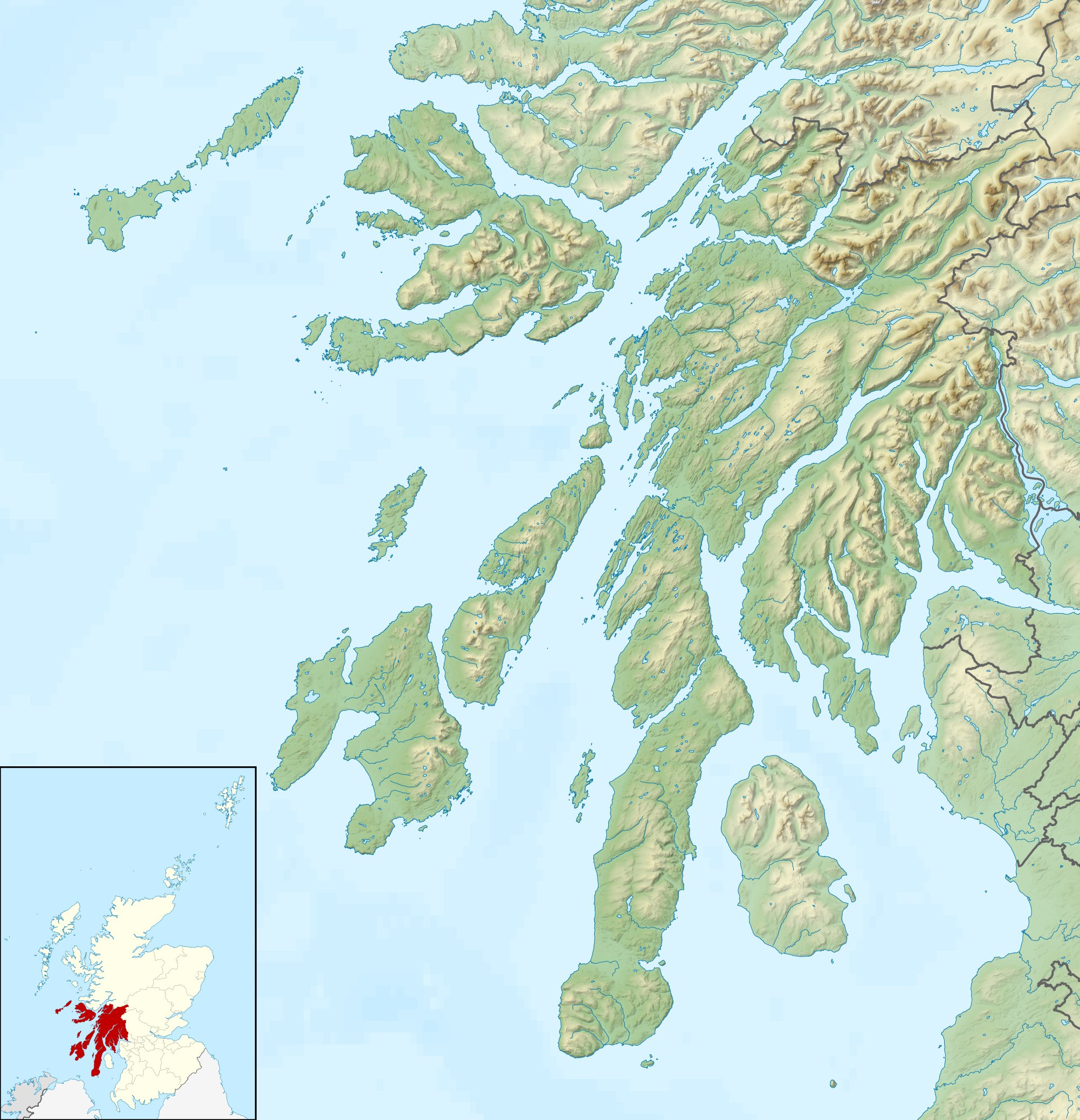 Relief map of Argyll and Bute, UK. Equirectangular map projection on WGS 84 datum, with N/S stretched 175% Geographic limits: West: 7.2W East: 4.5W North: 56.8N South: 55.2N